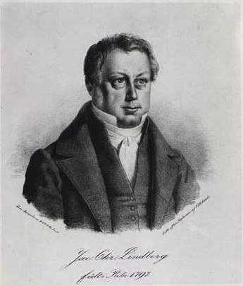 Jacob Christian Lindberg (1797-1857), Danish priest and politician, MP